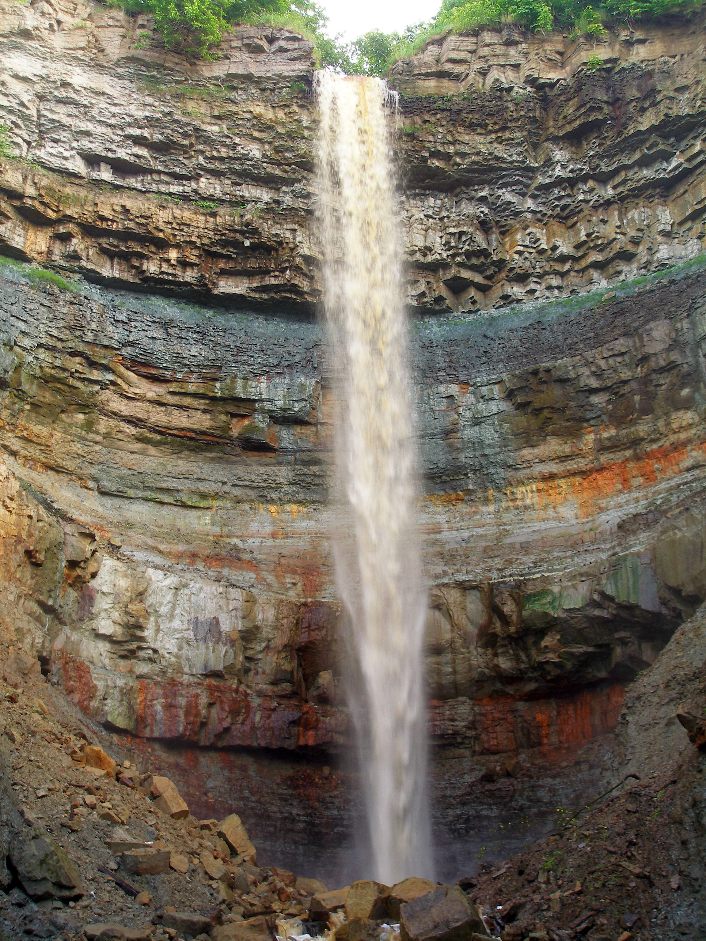 Valaste Waterfall, Estonia